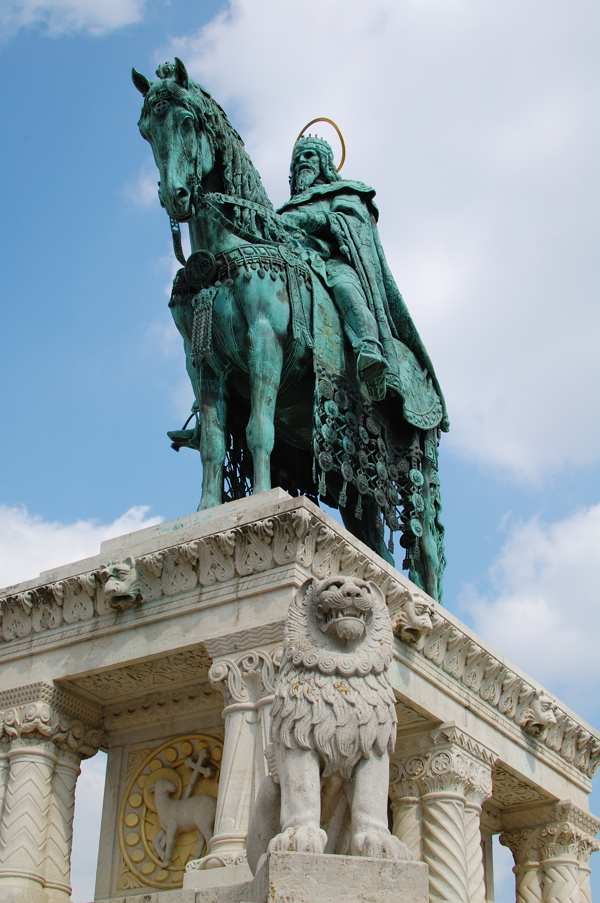 Statue of Stephen I of Hungary in Buda Castle